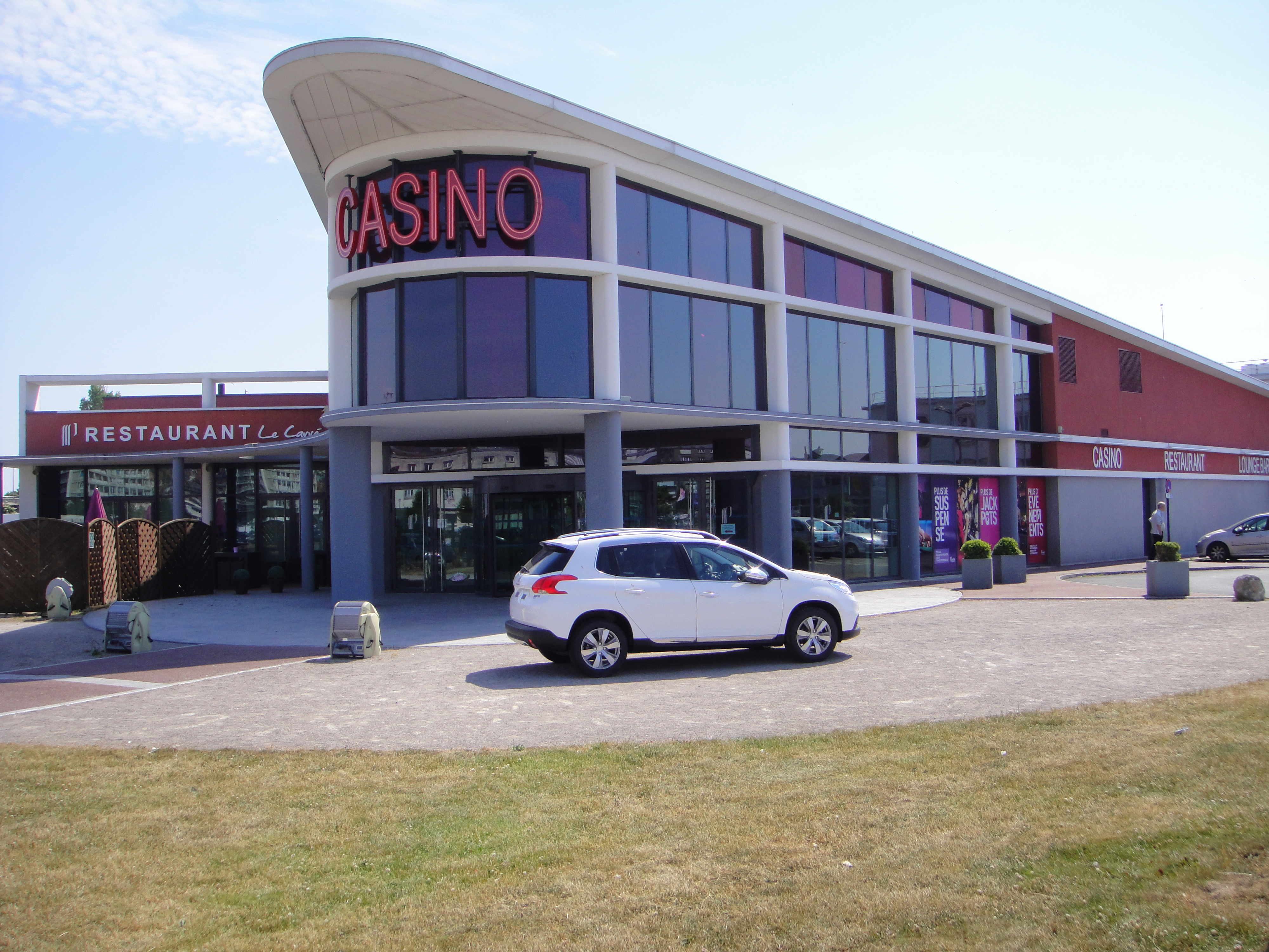 Boulogne-sur-Mer Casino (since 2008)